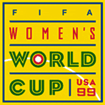 The logo of 1999 FIFA Women's World Cup